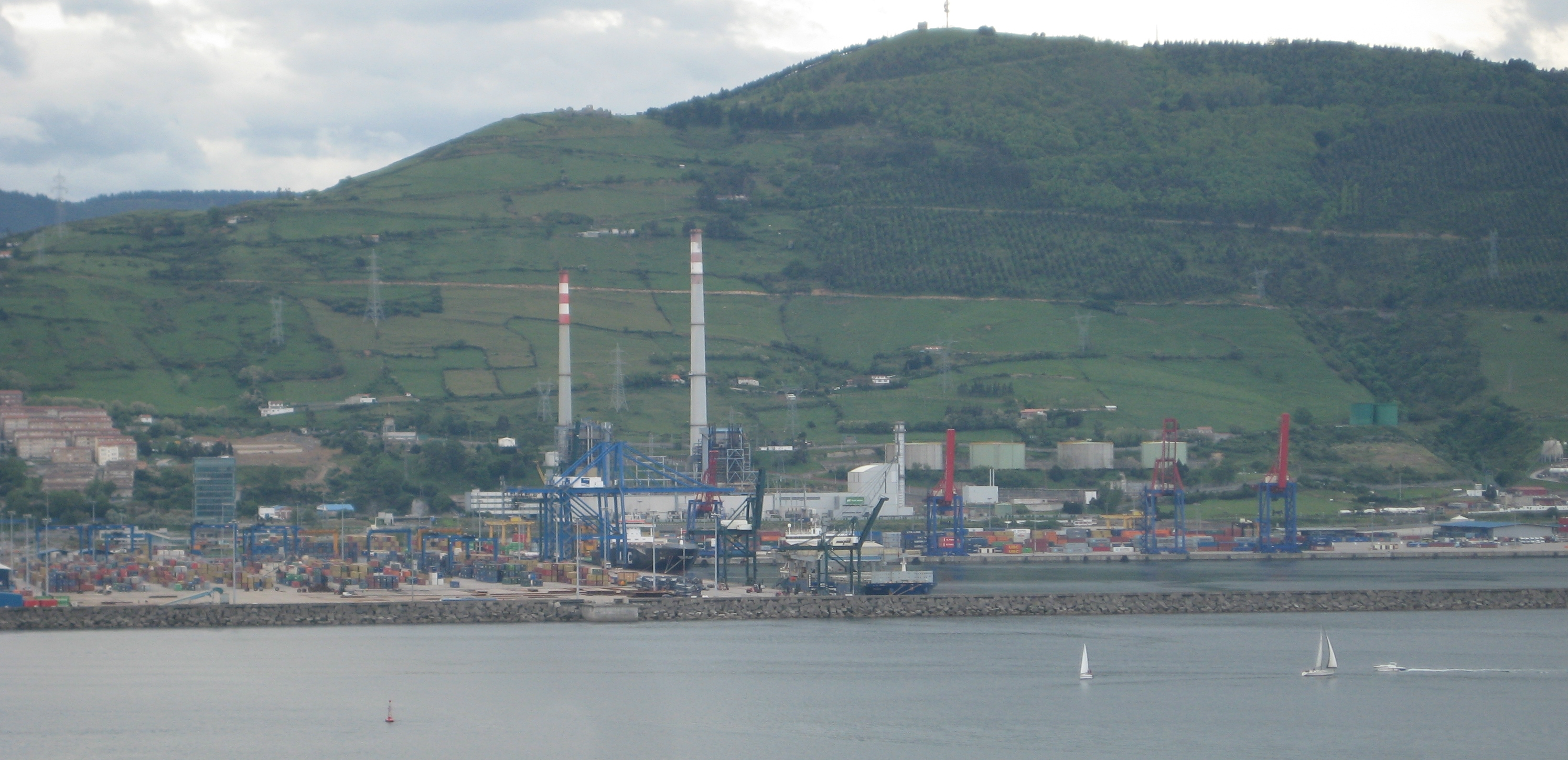 Mount Serantes and neighbourhood of San Juan, in Santurce-Santurtzi, Biscay.